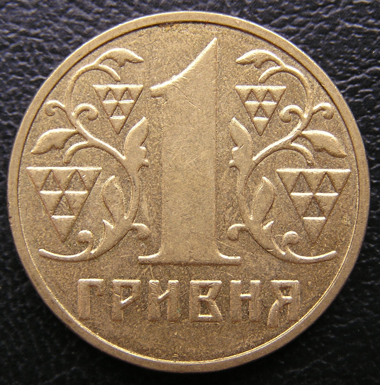 1 hryvnia Ukraine